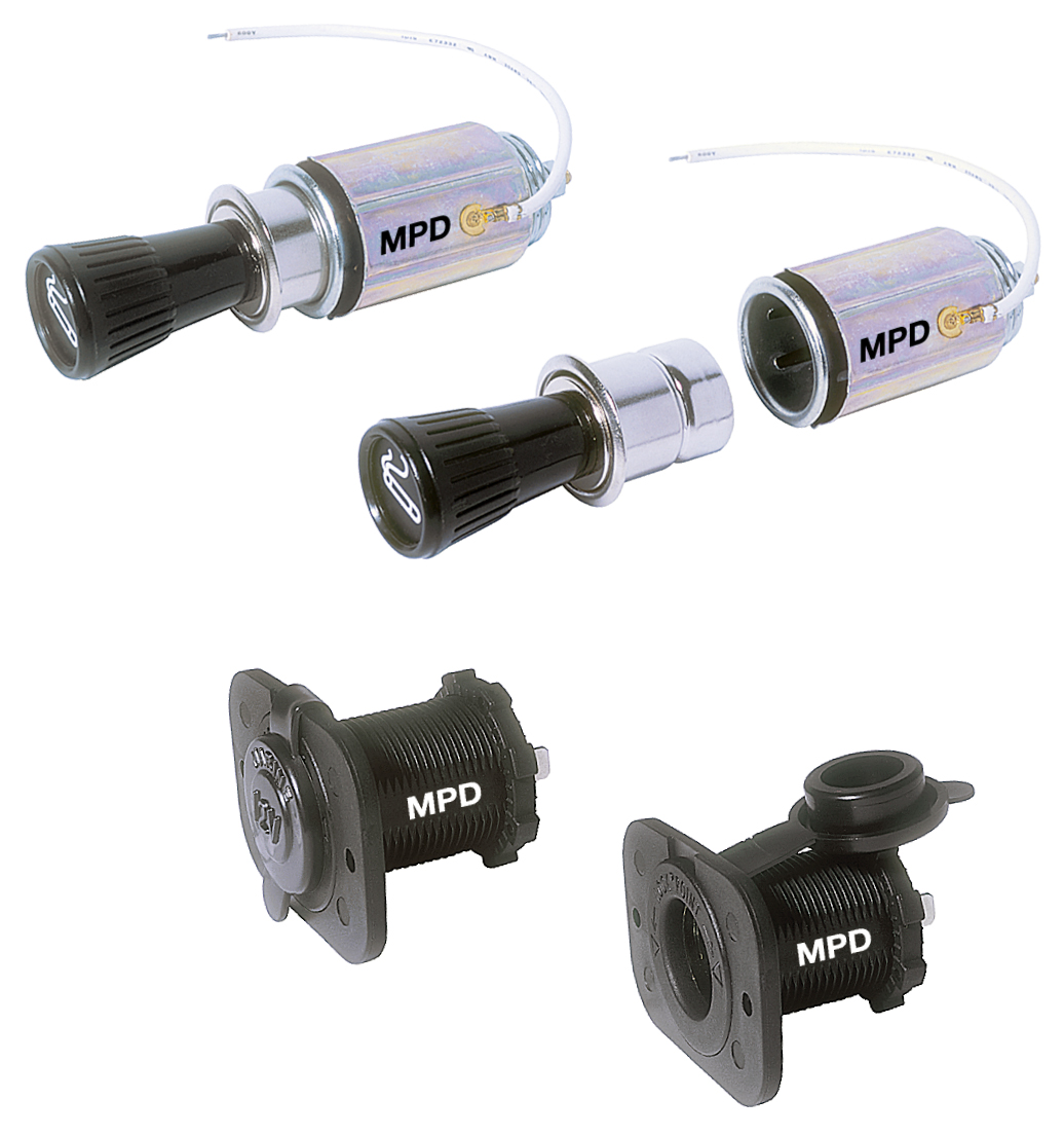 12 volt sockets, 12 volt cigar lighters, 12V, 12 volts, 12 volt marine sockets